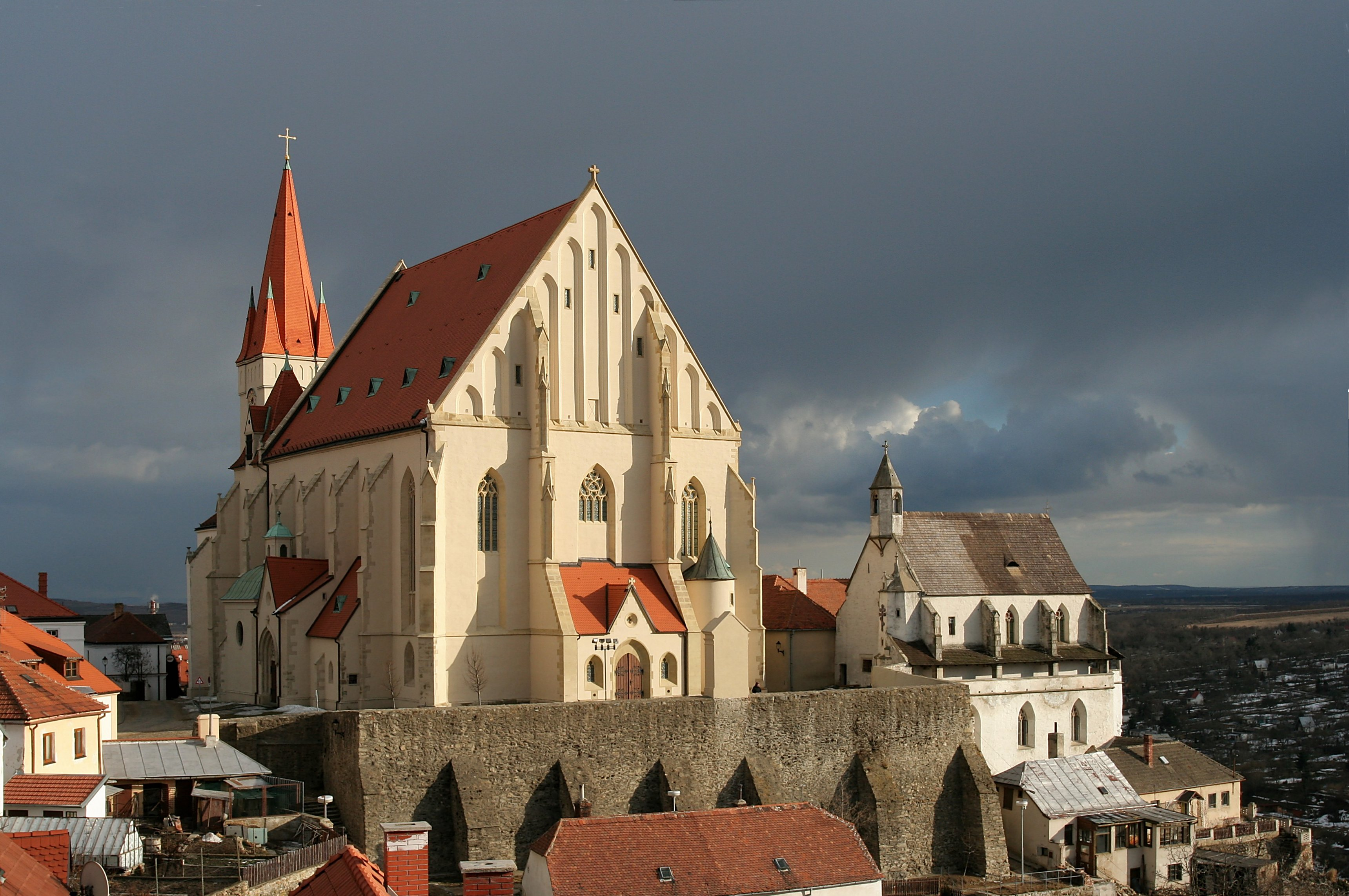 Nicholas Square in Znojmo